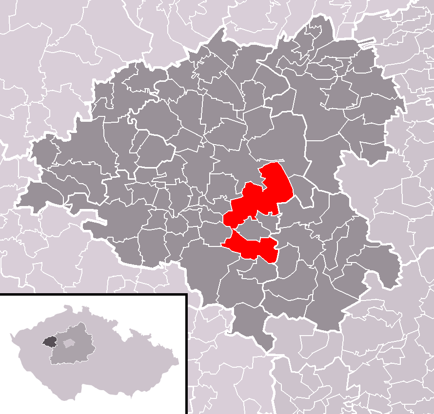 Location of Pavlíkov municipality within Rakovník District and (identical) administrative area of Rakovník as a Municipality with Extended Competence. Villages of Chlum, Pavlíkov and Ryšín are located in northern part of the highlited territory, villages of Skřiváň and Tytry in the southern part.